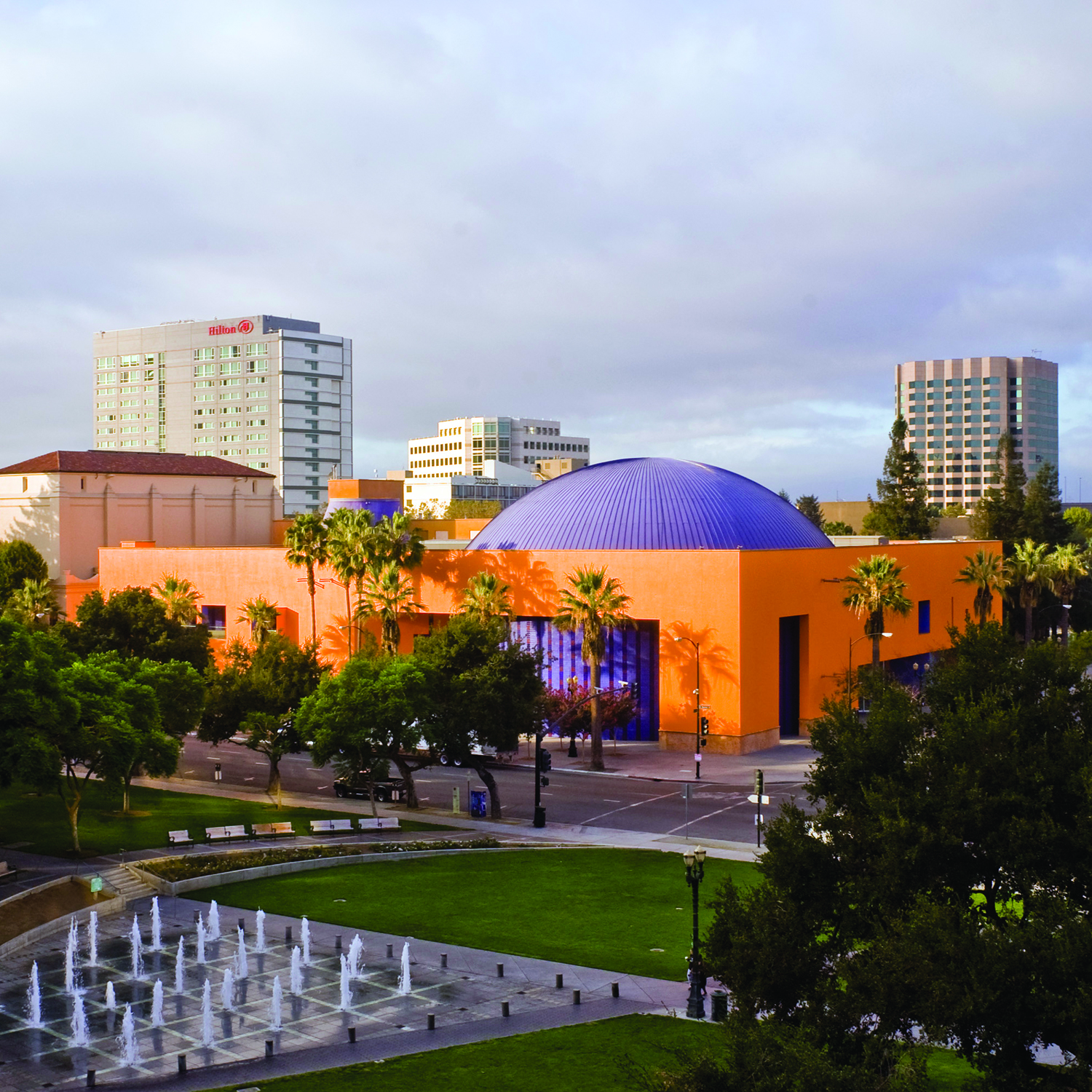 Image of the mango and azure building of The Tech Museum of Innovation in Downtown San Jose.